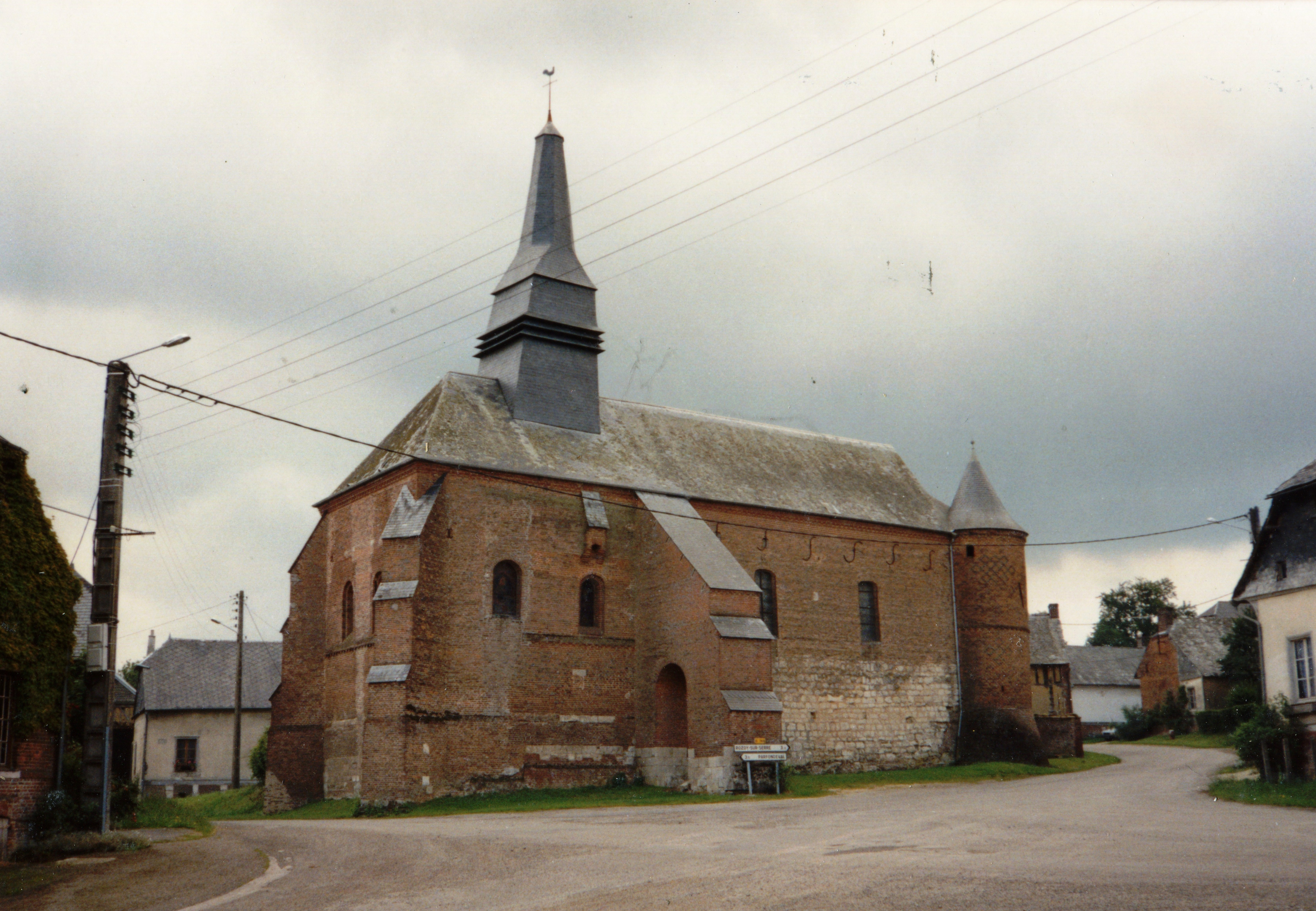 Église Saint-Martin d'Archon en 1991